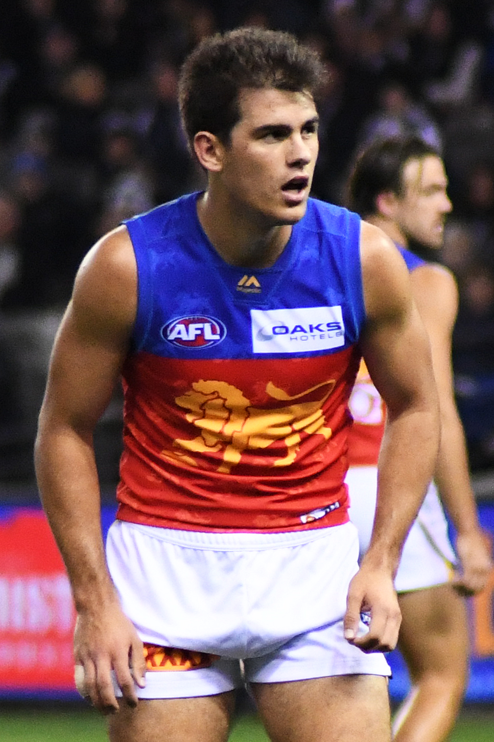 Brandon Starcevich of Brisbane during the 2018 AFL round 21 match between Collingwood and Brisbane at Etihad Stadium on Saturday, 11 August 2018 in Melbourne, Victoria.